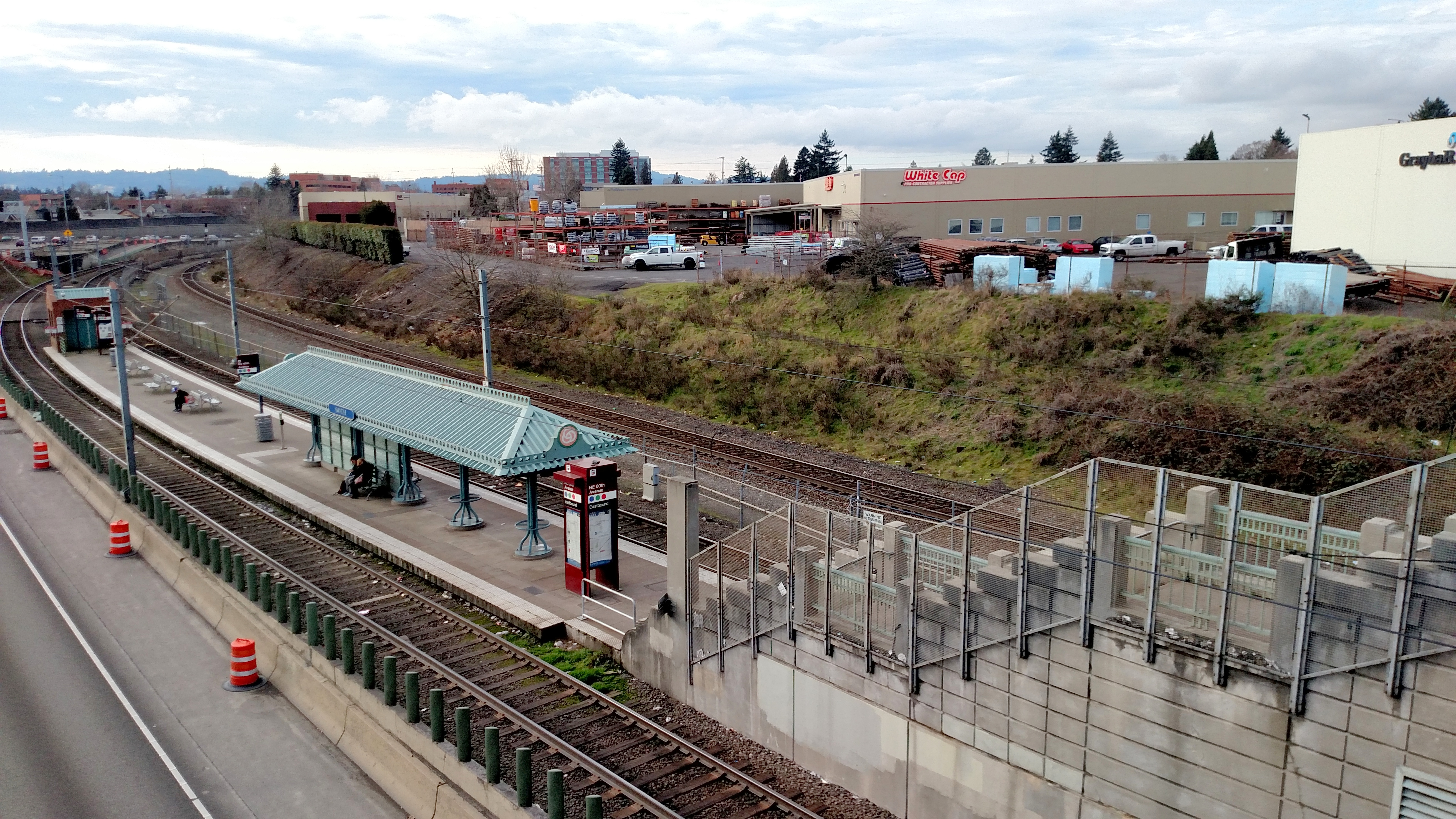 Platform at Northeast 60th Avenue station in February 2018